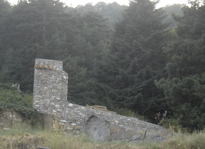 The Fortress of Lazaioi, at Ano Milia, Pieria. Lazaioi were Greek revolutionaries.